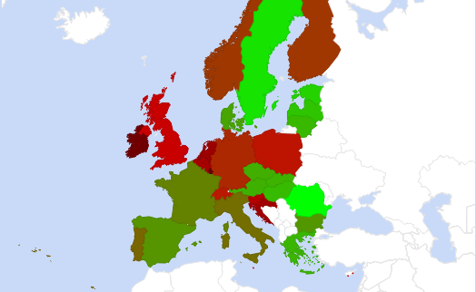 The map displays the statistics of fertilizer consumption in western and central European counties from data published by The World Bank for 2012.